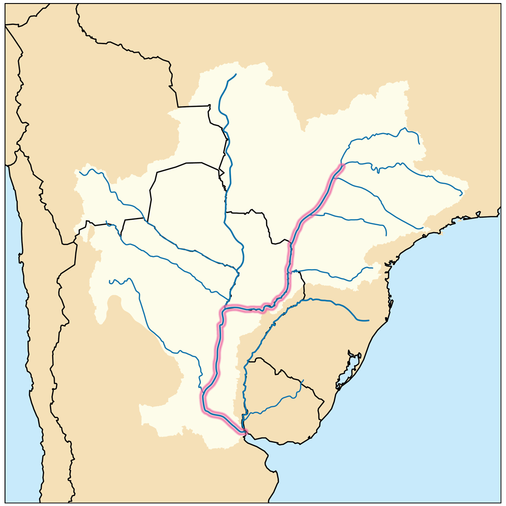 This is a map showing the Paraná River drainage basin with the Paraná highlighted.